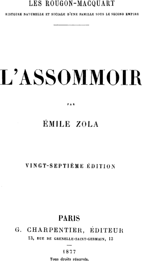 Book cover of L'Assommoir by Émile Zola (1840-1902)